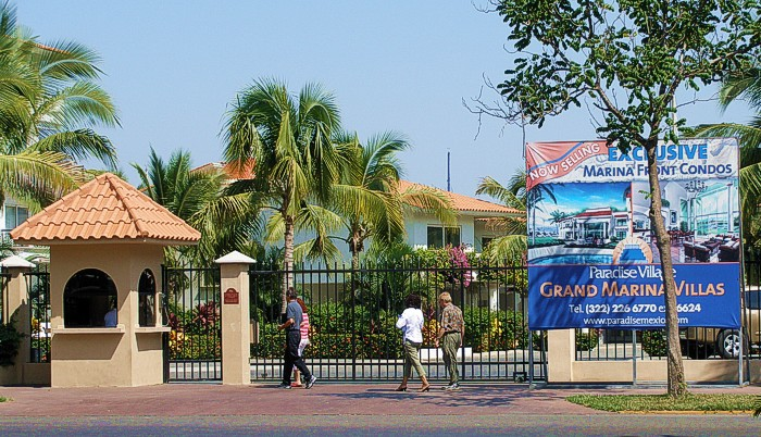 The entrance to the Paradise Village Grand Marina Villas gated community at the Paradise Village Resort, Nuevo Vallarta, Nayarit, Mexico. Photographed by user Coolcaesar on October 30, 2005.